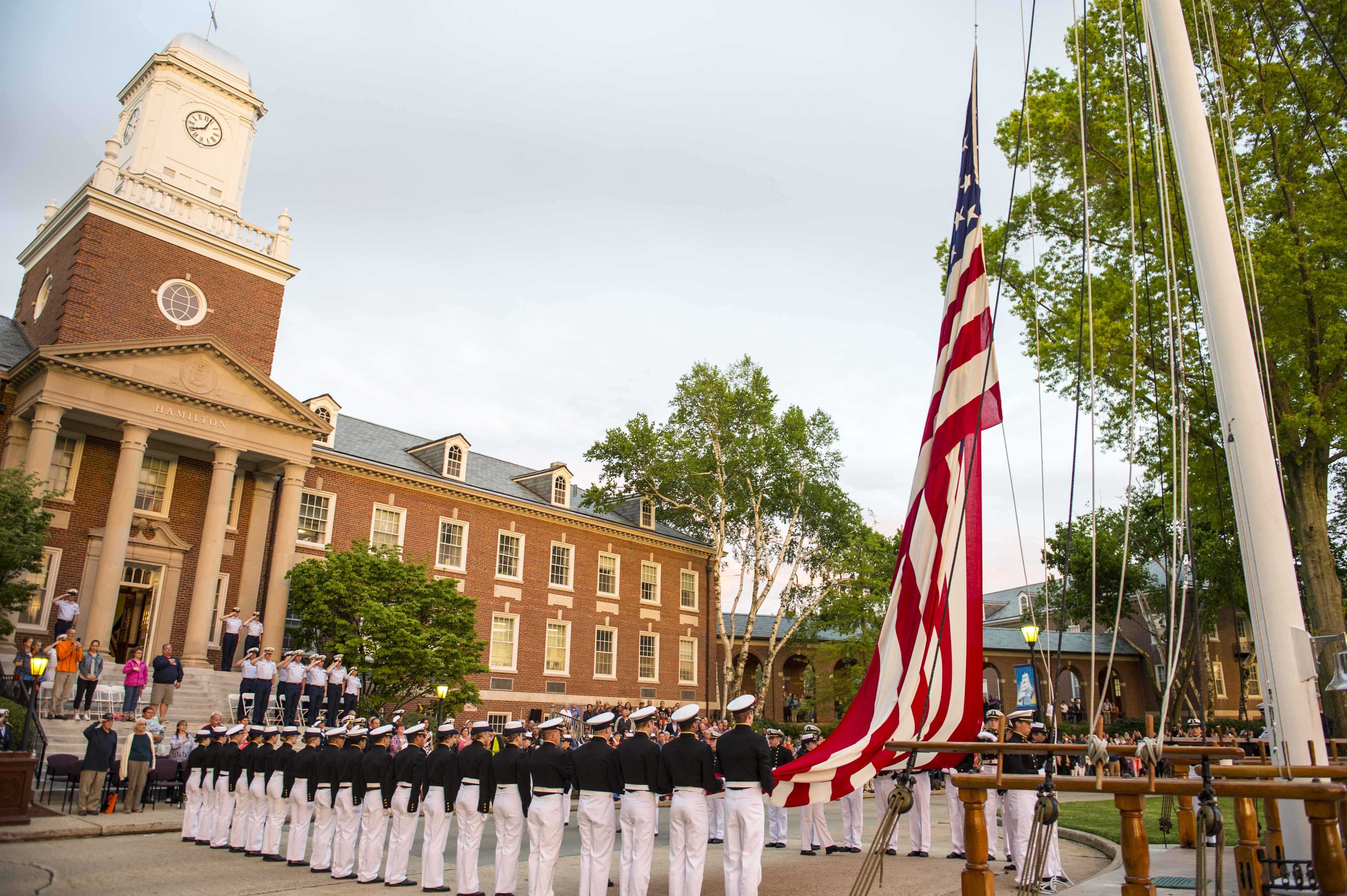 NEW LONDON, Conn. -- The U.S. Coast Guard Academy Corps of Cadets holds a sunset regimental review, May 20, 2018. The sunset review is one of the final regimental reviews for the Class of 2018 before they graduate this Wednesday. U.S. Coast Guard photos by Petty Officer 3rd Class Nicole Foguth.